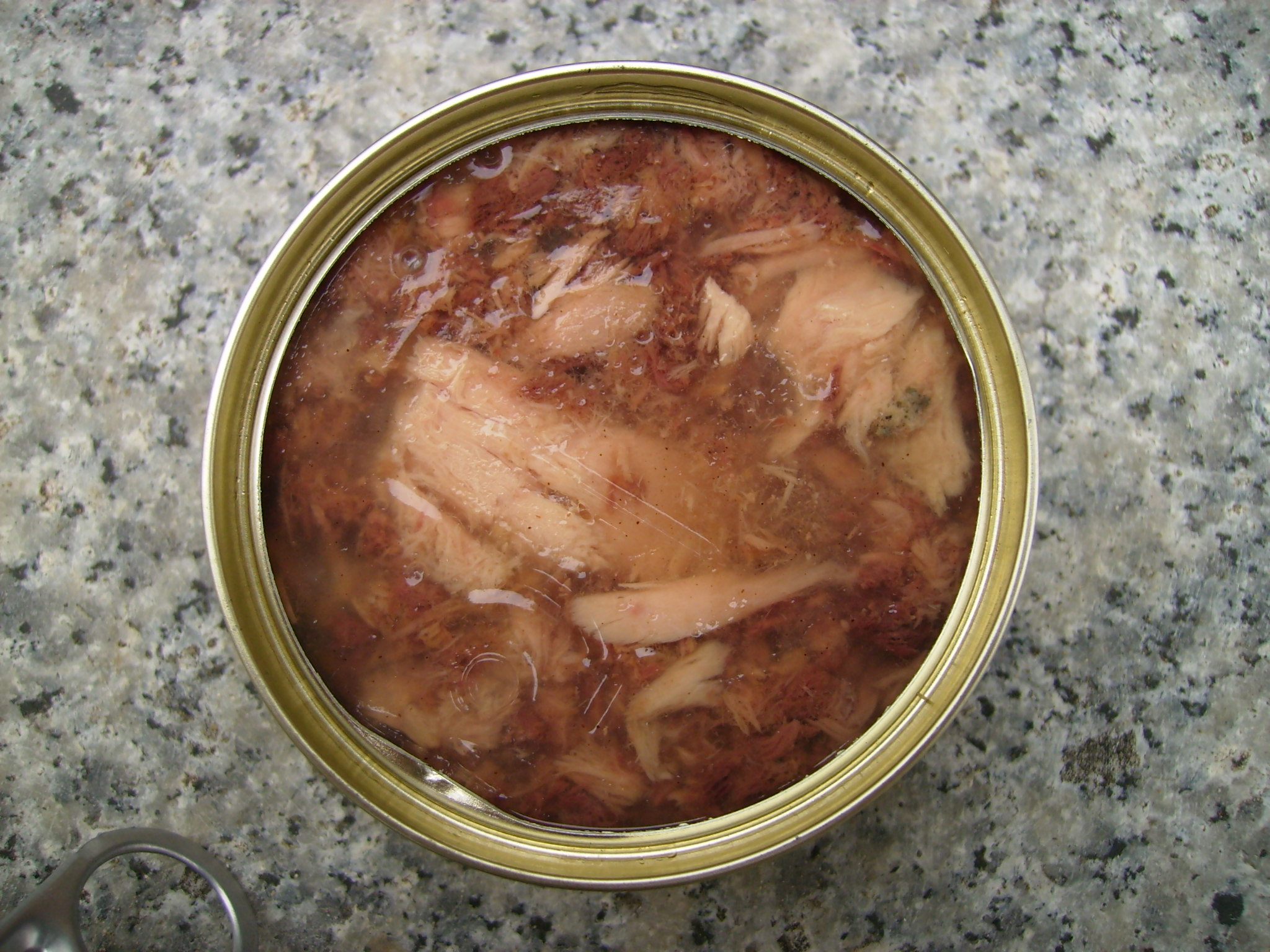 Contents of a can of cat food sold in Japan (Fish flakes in jelly). This is not a "complete and balanced" food. Photograph by uploder, myself.